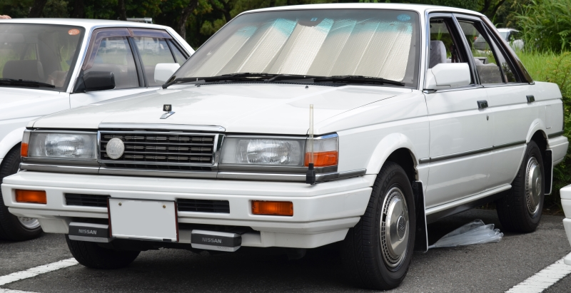 Nissan Laurel Spirit